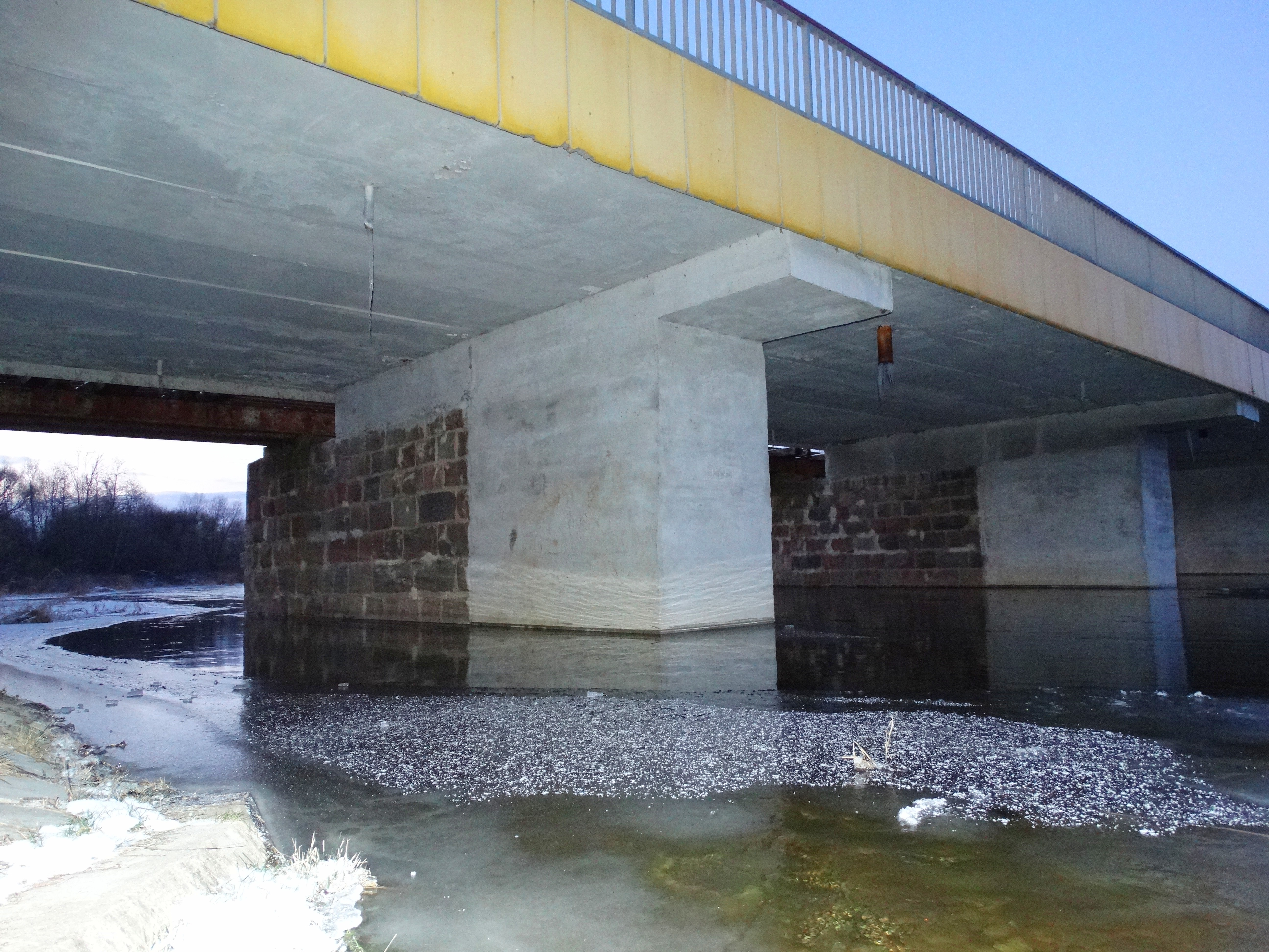 Bridge on Mūša River, Petrašiūnai, Pakruojis district, Lithuania